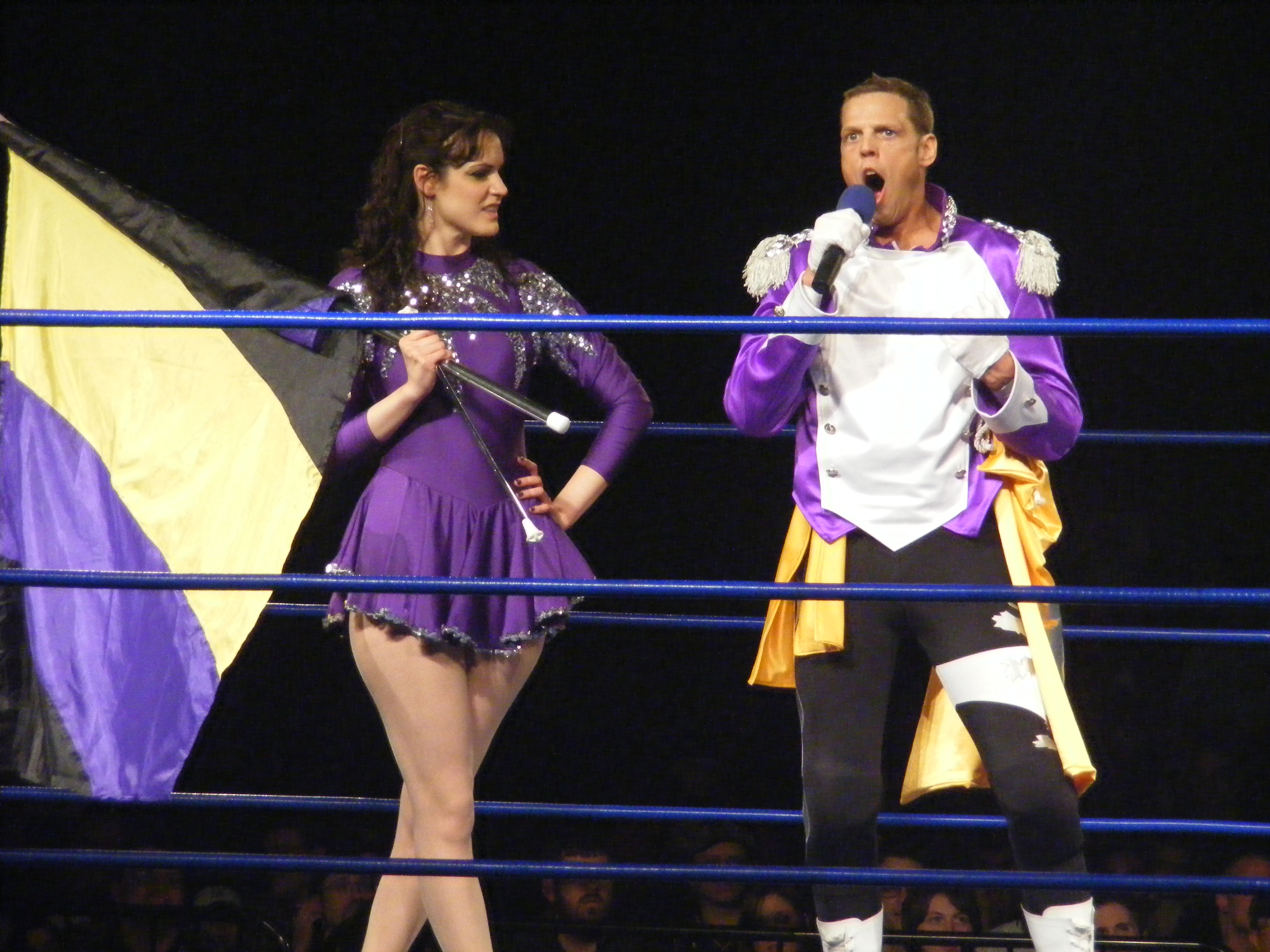 Professional wrestler Archibald Peck and his valet Veronica at Chikara King of Trios 2011.